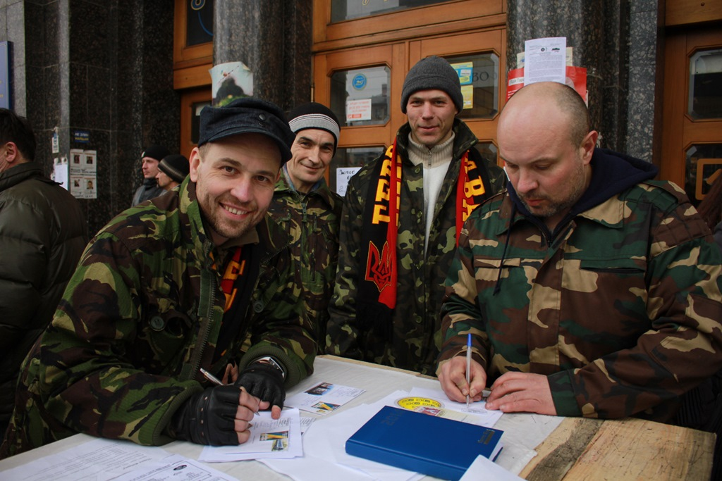 Writing letters during Euromaidan